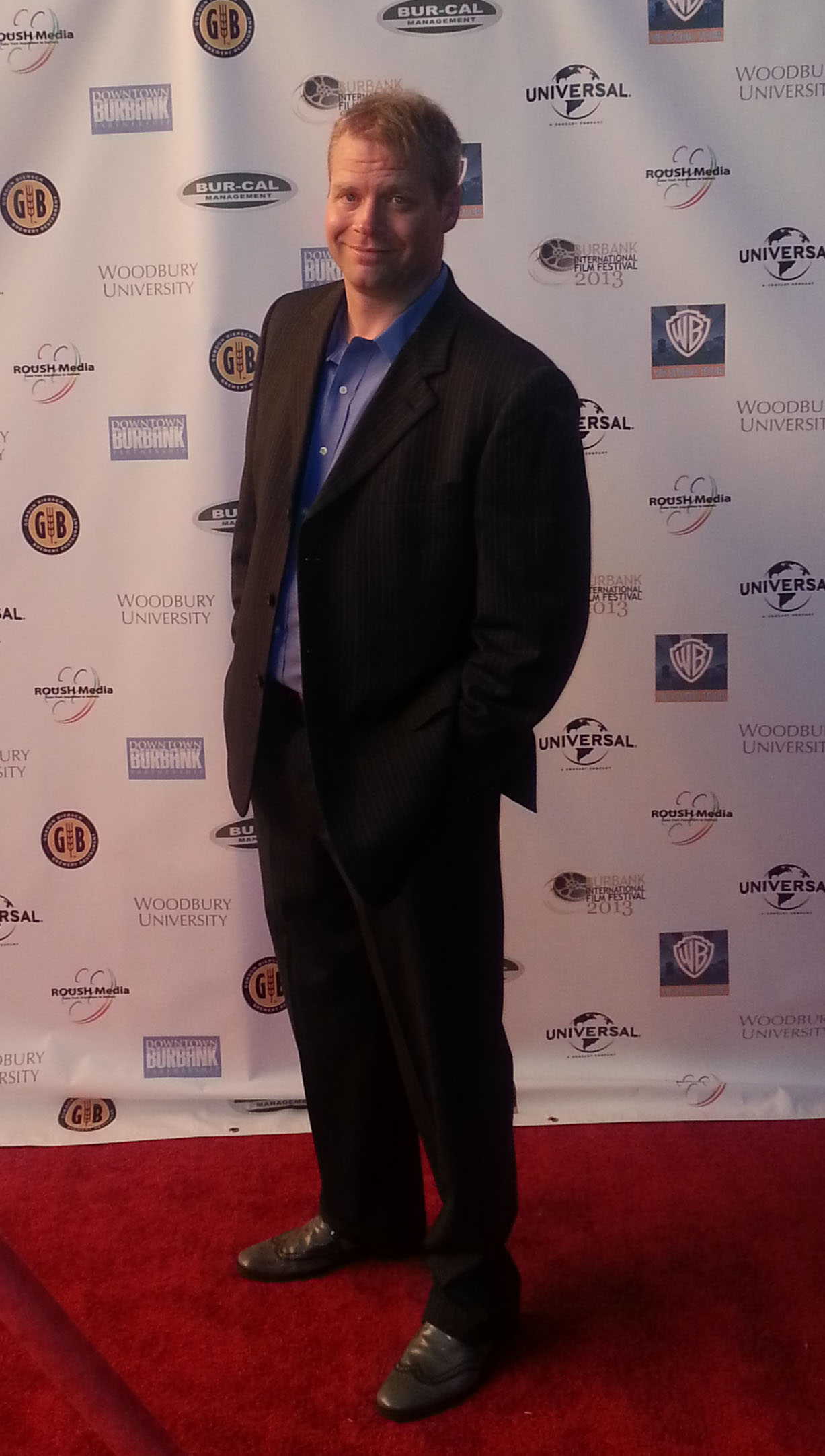 Kiff VandenHeuvel at the Red Carpet for the Burbank Film Festival.